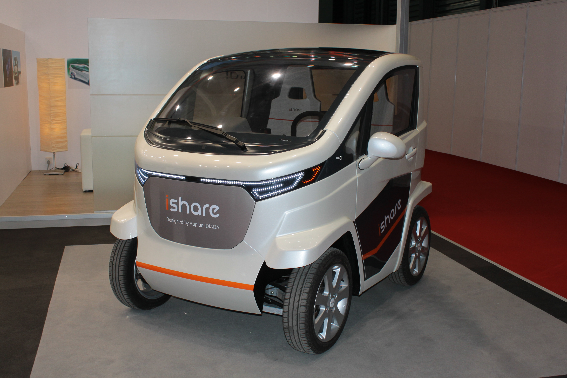 Applus+ IDIADA iShare concept vehicle (electric quadricycle for car-sharing) at Auto Shanghai 2013